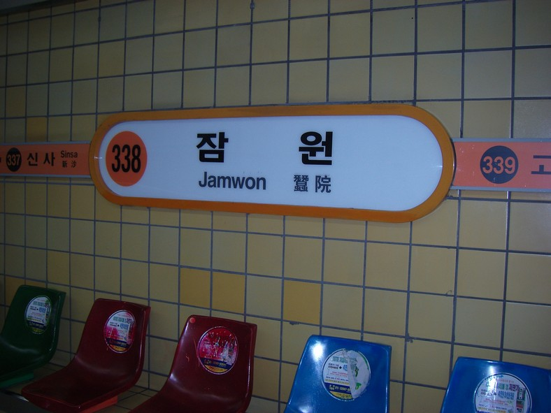 Jamwon Station